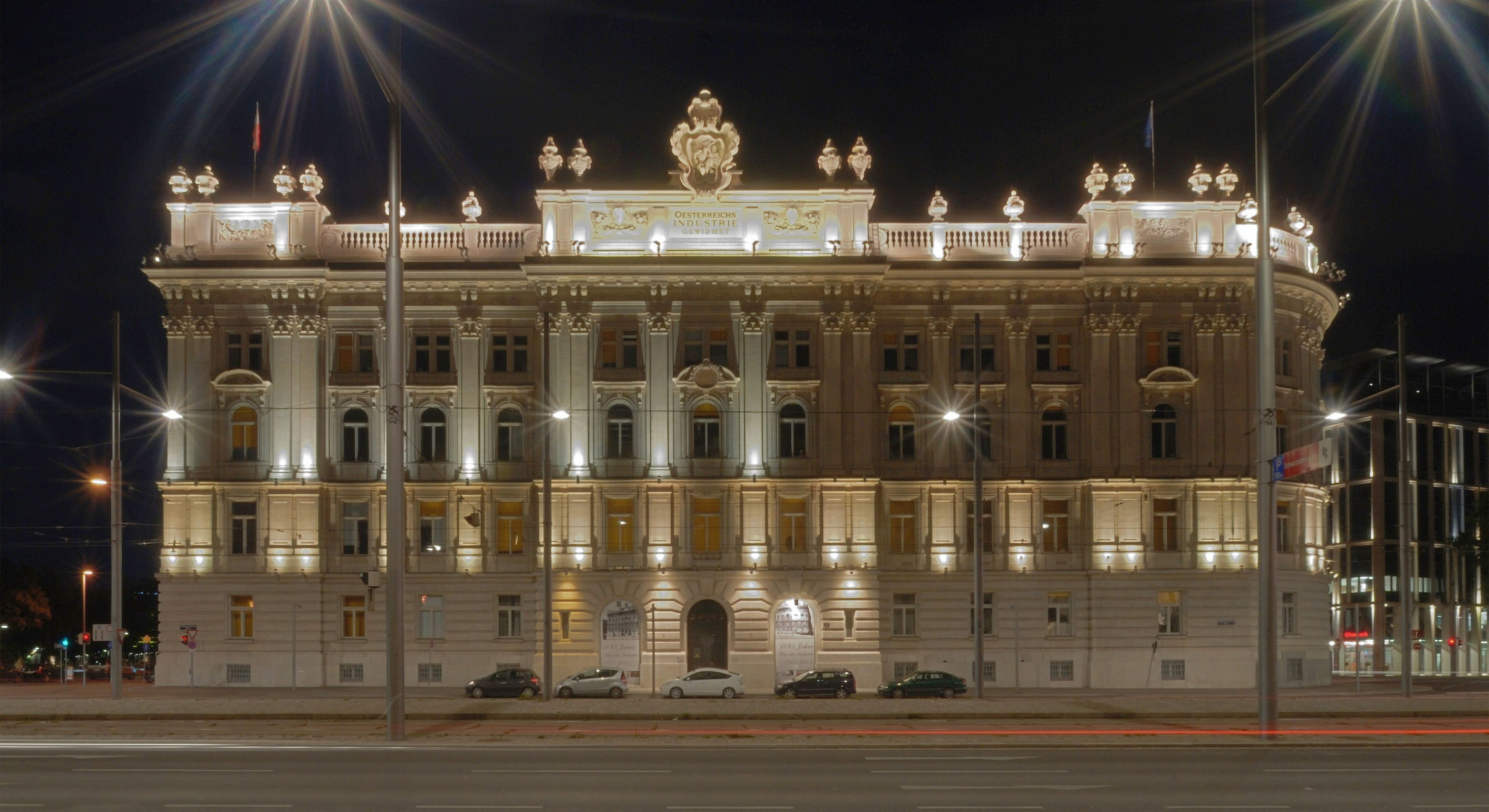 House of Industry, Schwarzenbergplatz 4, 3rd district of Vienna